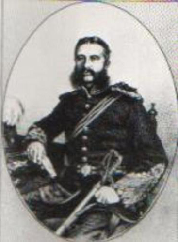 Edward Osborne Hewett, first Commandant Royal Military College of Canada